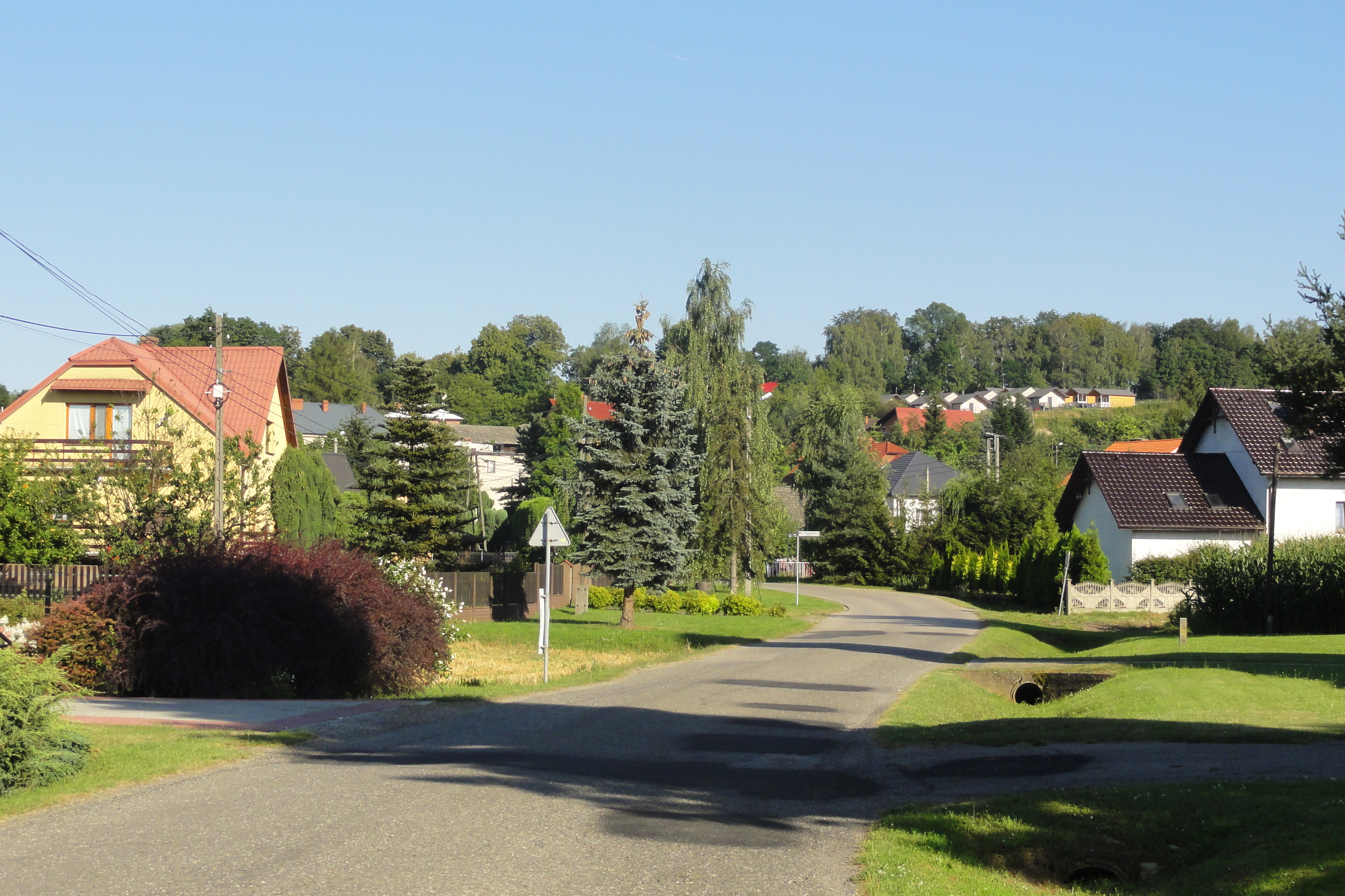 Laskowa